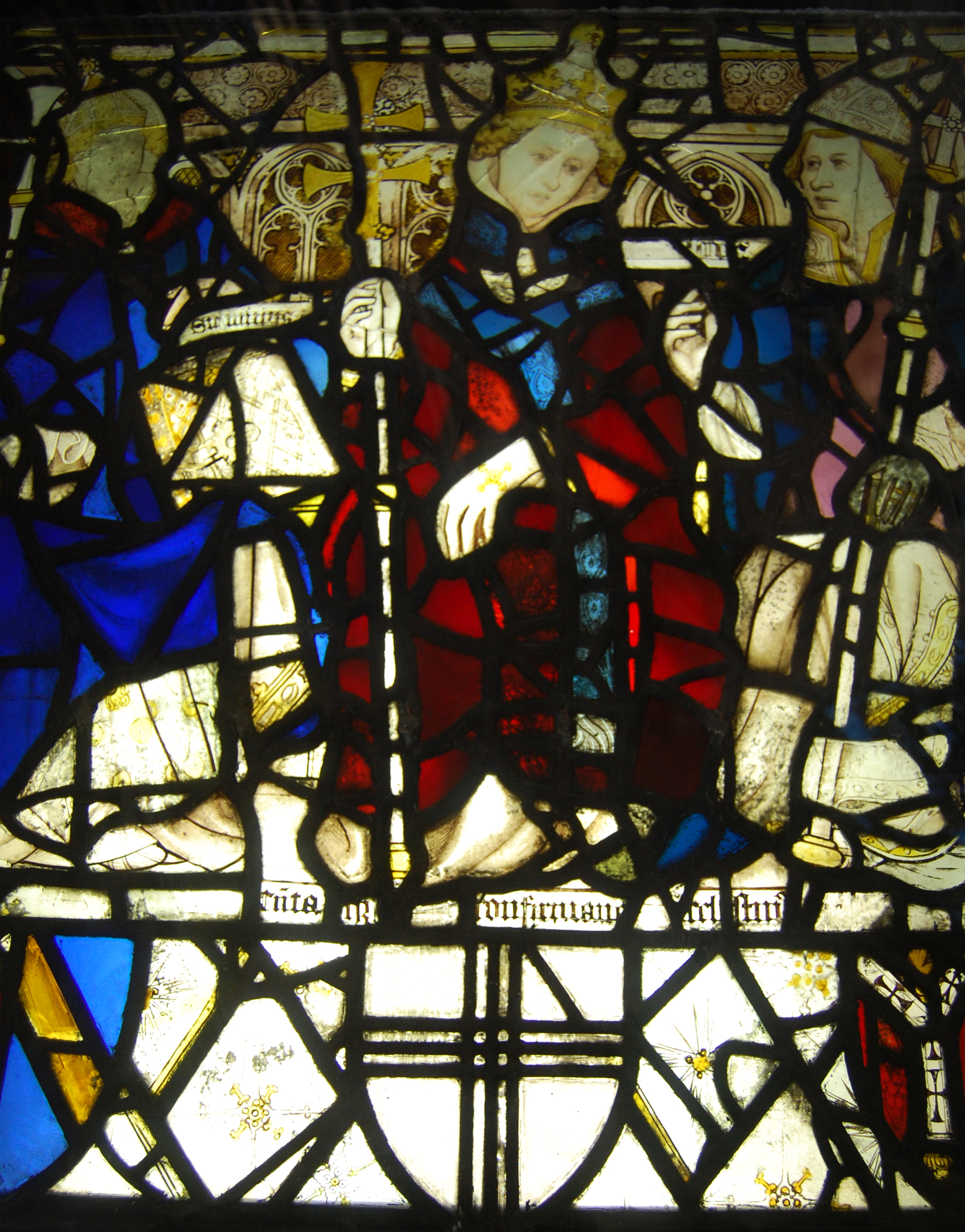 Stained glass at York Minster.